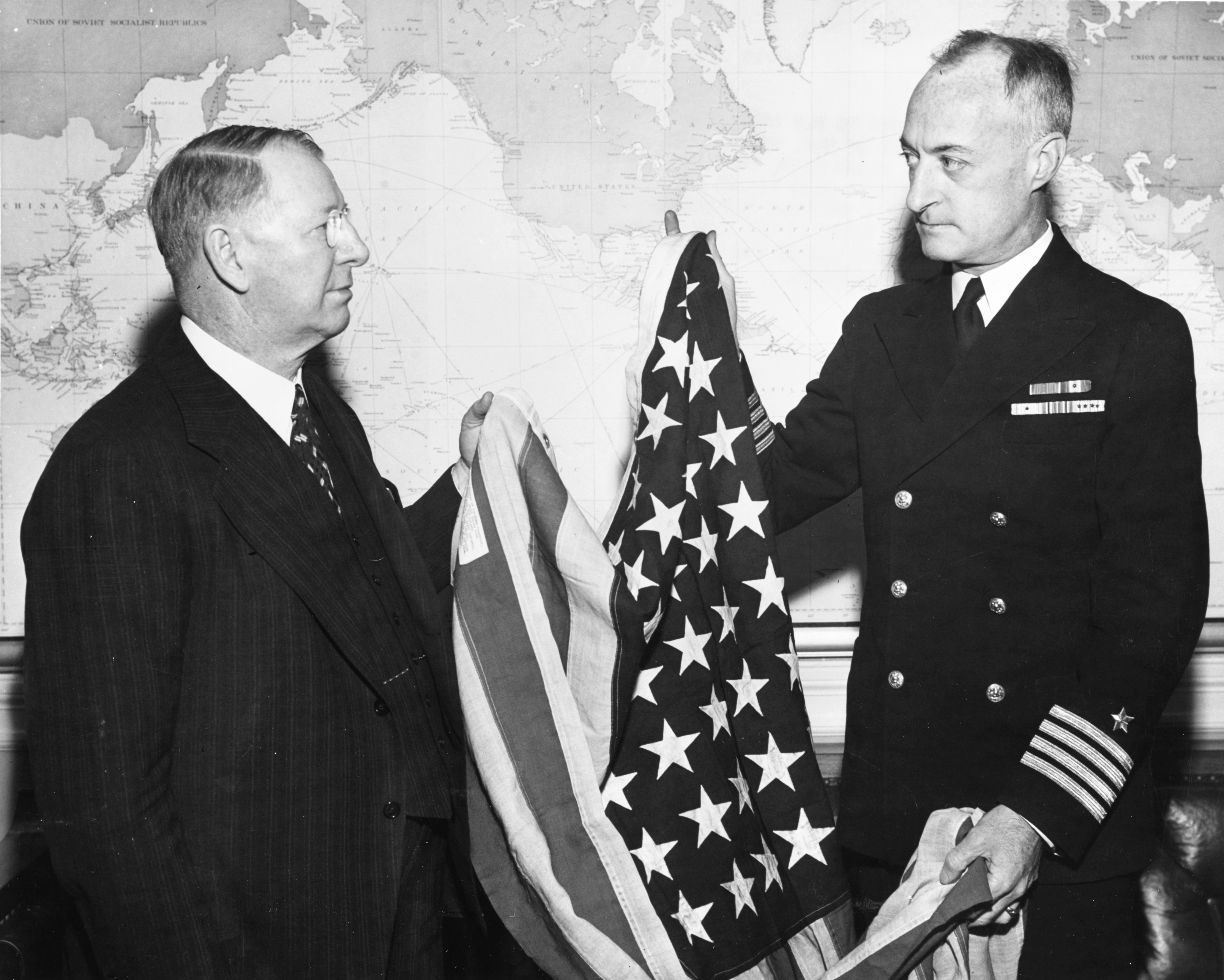 U.S. Secretary of the Navy Frank Knox (left) receives the first United States' flag to fly over Japanese territory that had been captured by U.S. forces, at the Navy Department, Washington D.C. (USA), 29 February 1944. This flag had been raised over Kwajalein on 31 January 1944, during ceremonies on the first day of landings there. Presenting the flag is Captain James H. Doyle, USN.